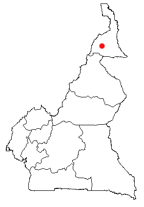 MAroua, Cameroon Location Map; created with the GIMP. Made by User:Acntx.